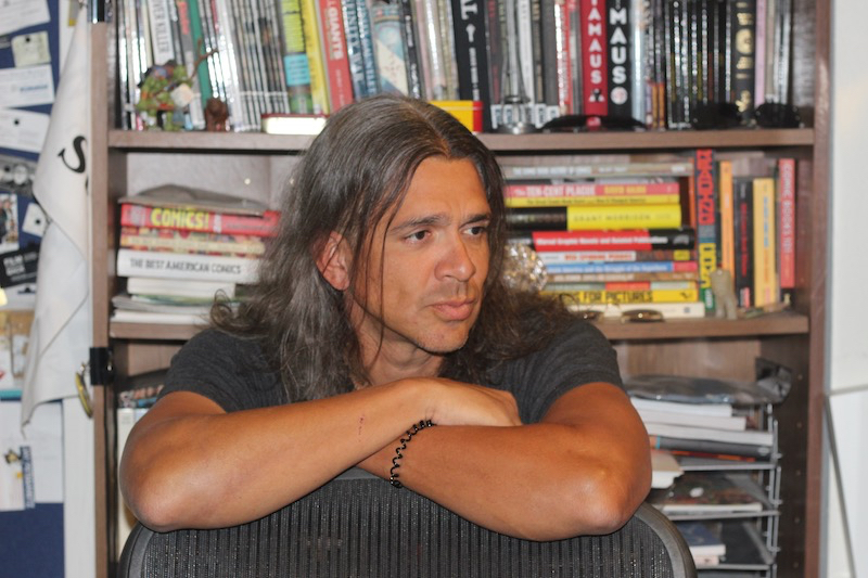 Stephen Graham Jones in his office, late 2019